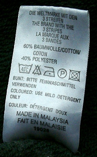 Label inside clothes which informs about composition and gives hints about washing